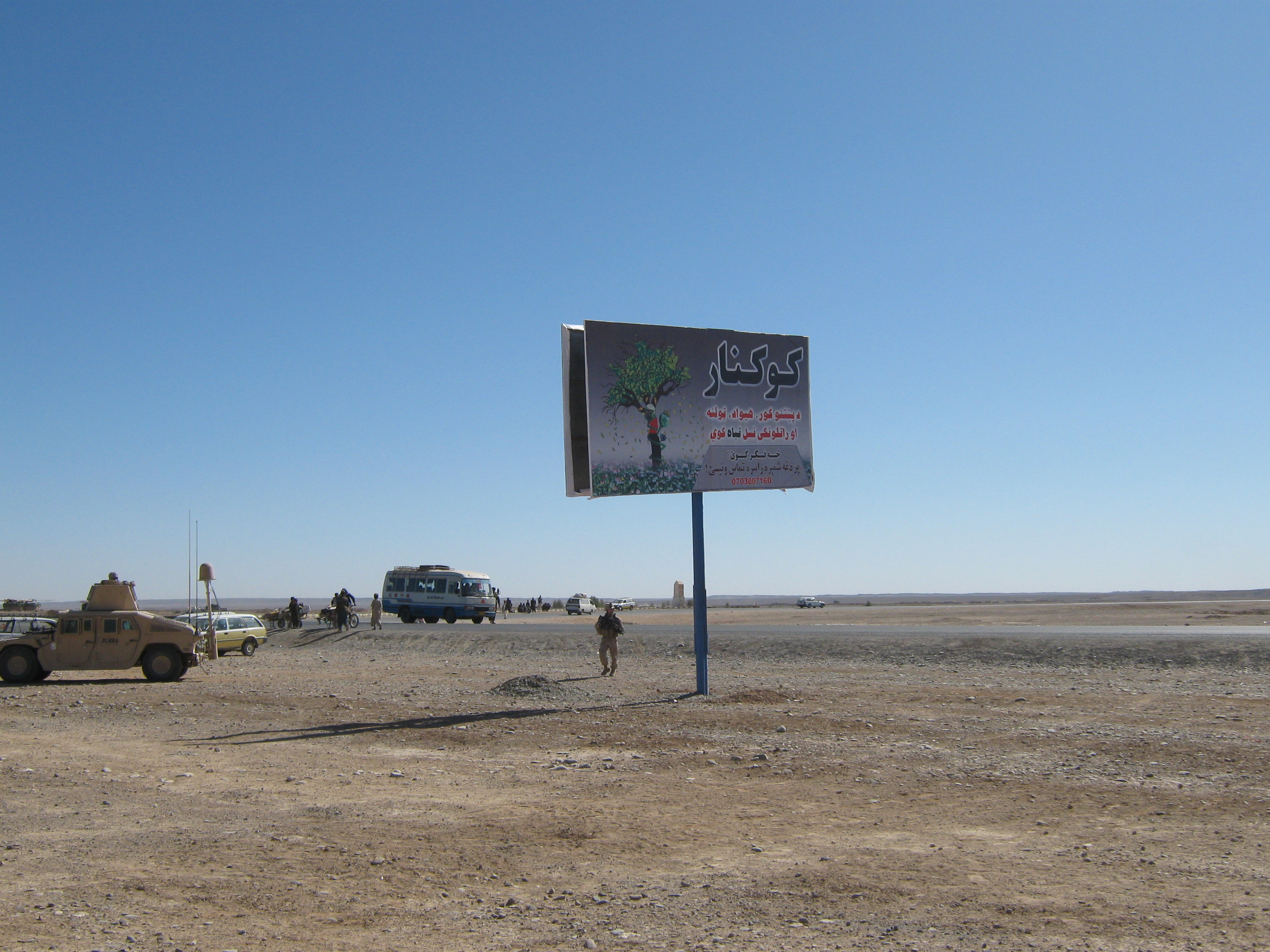 Intersection of Highway 1 and Route 606 in Delaram, Afghanistan. Road in front with sign is Highway 1, just west of the Delaram Bazaar. The car to the far right of the sign is heading south on Route 606 towards Zaranj. This intersection is the northern terminus of Route 606. The Marine in the picture is from Regimental Combat Team 3. The sign says in Pastu, "Opium will destroy your Pashtun family and your country"